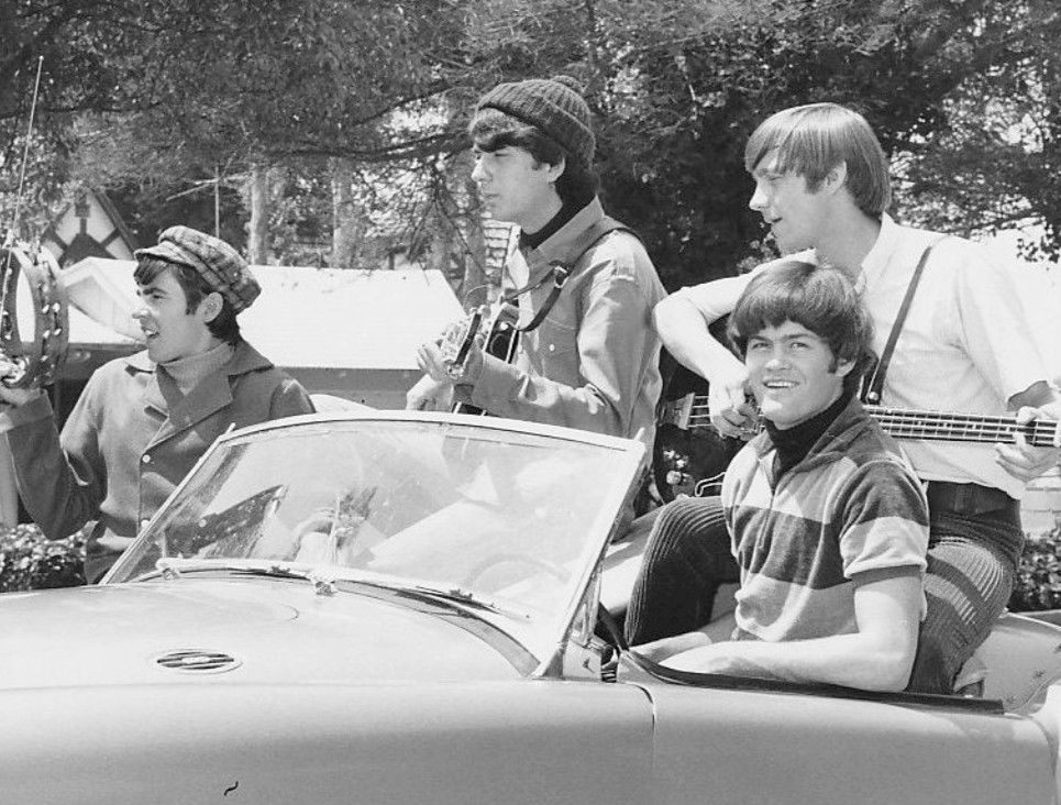 Photo of the music group The Monkees from their television series.